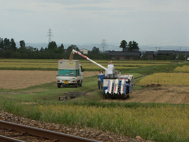 Rice combine harvester in a paddy field in Nanto, Toyama, Japan.